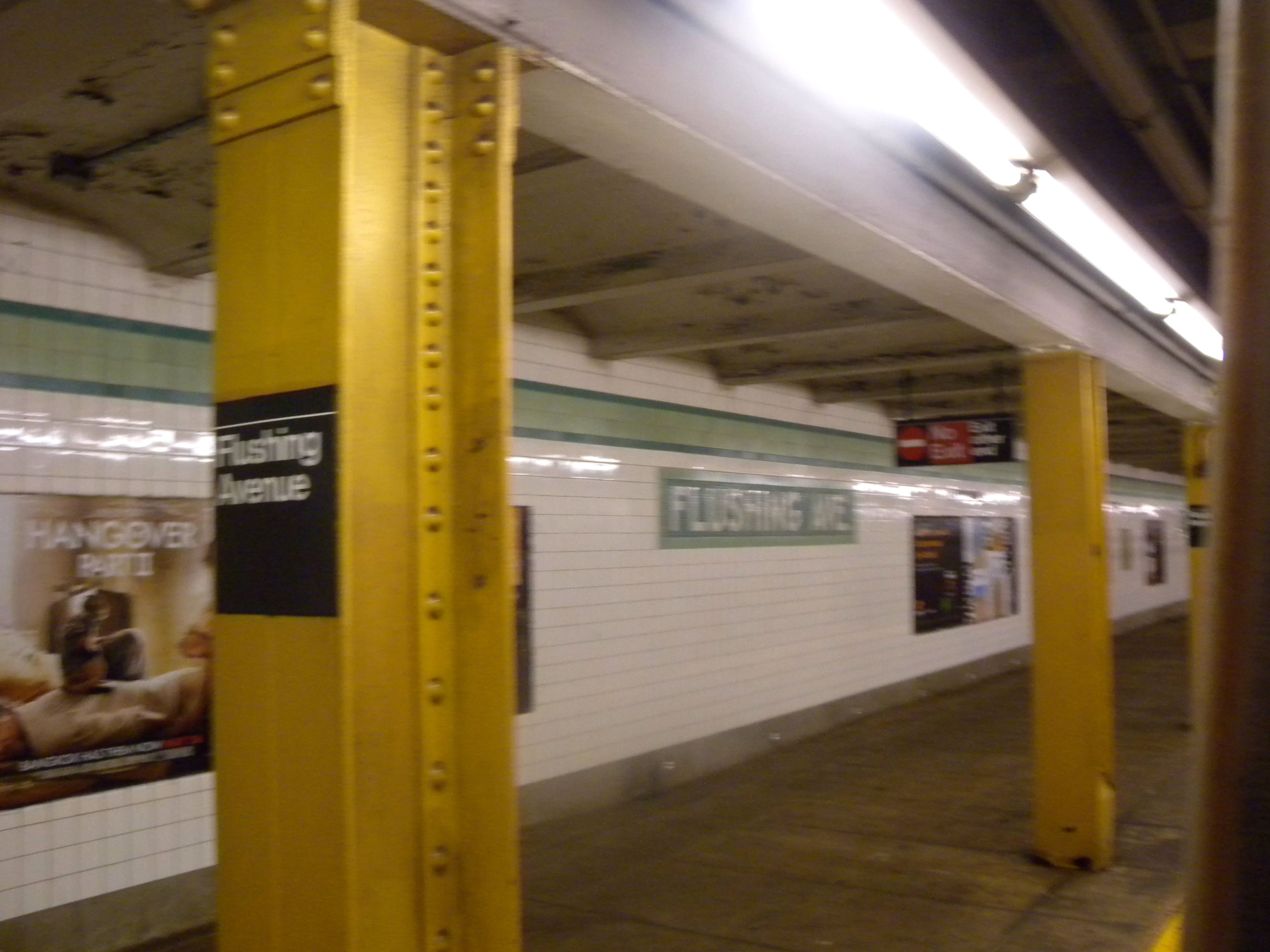 Lookig north from southbound G at Flushing Avenue platform.